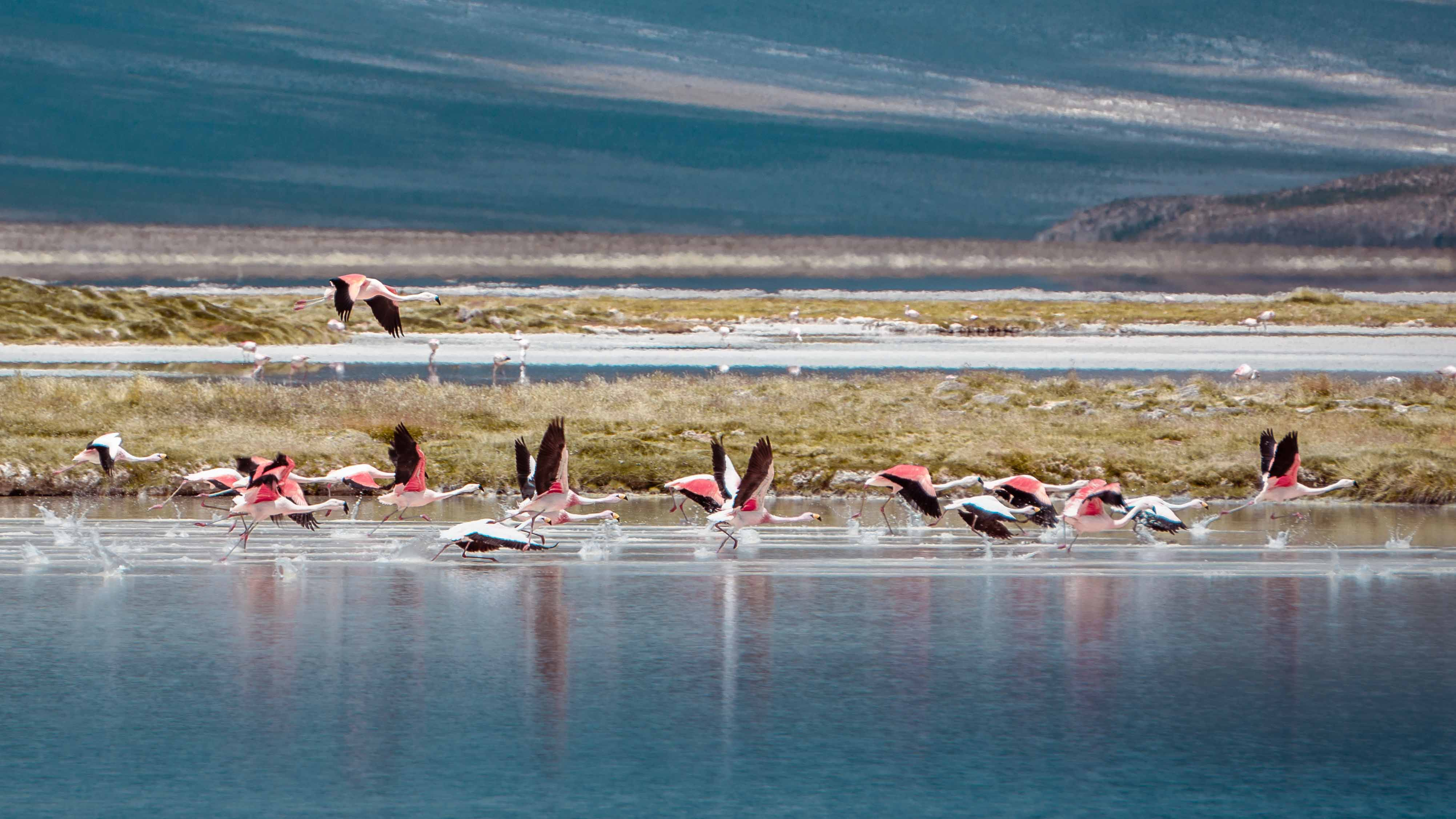 Mixed flock of Phoenicoparrus jamesi and Phoenicopterus chilensis, Salar de Surire, Chile